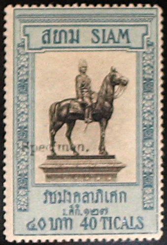 Specimen of Thai postage stamp Jubilee Issue. 40 Ticals (40 Baht). Issued date 11 November 1908.